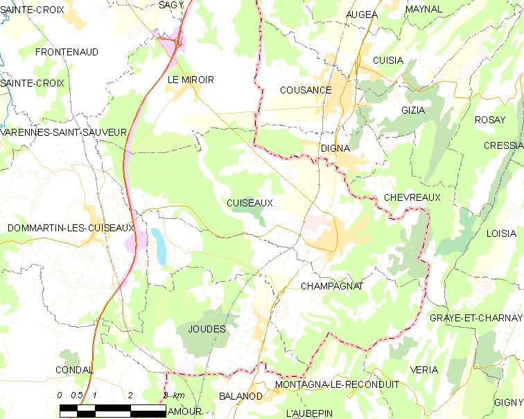 Map of French municipality